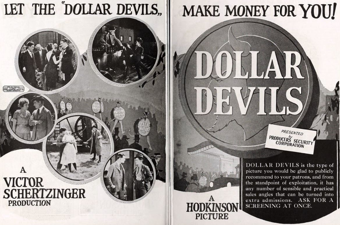 Advertisement for the American drama film Dollar Devils (1923), on pages 10 and 11 of the February 10, 1923 Exhibitors Trade Review.